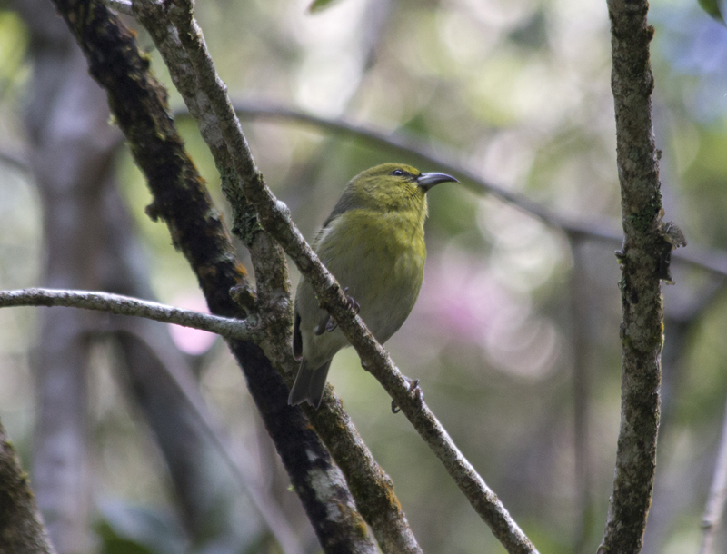 A Kauai 'Amakihi, photographed at Kokee, Kauai, Hawaii.